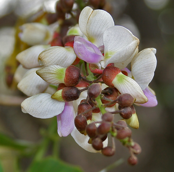 Pongamia pinnata - Karanj, Indian Beech Tree, Honge Tree, Pongam Tree or Panigrahi at Deer Park in Shamirpet, Rangareddy district, Andhra Pradesh, India.